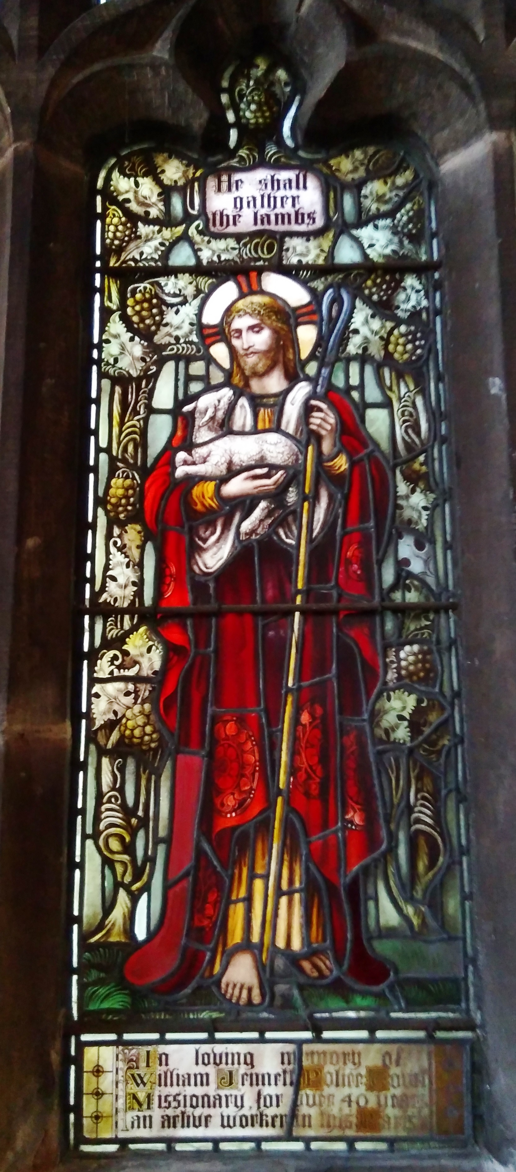 Window, by H. Gustave Hiller (1865-1946), in the Lady Chapel at the Church of St. Mary, West Bank, Widnes. The window depicts Jesus, The Good Shepherd.